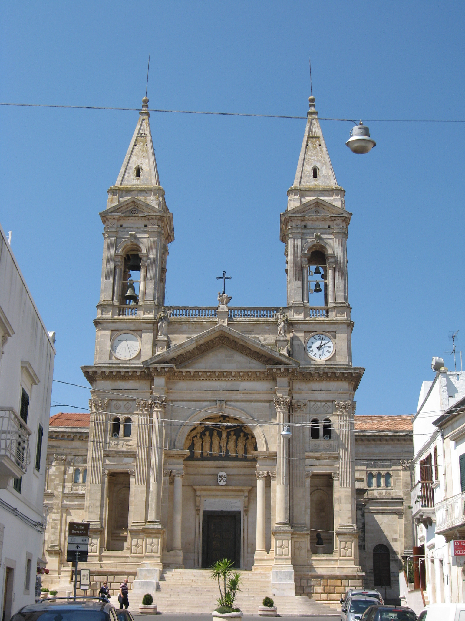 Saint Cosma and Damian church